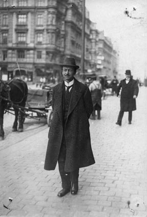 Camiille Huysmans in 1917, photograph used during the Socialist Peace Congress in Stockholm.